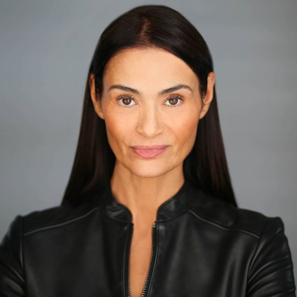 Portrait of British actress Charlotte Lewis (2018) photographed by Daniel Barnett